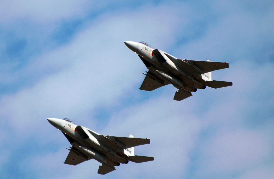 F-15J (945, 865) of 304 Sqn (then) at Tsuiki Air Festival 2008. Nikon D300 + AF-S VR 70-300mm f/4.5-5.6G IF-ED